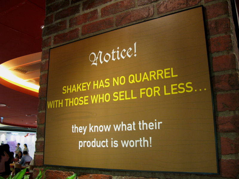 Photo of a "Ye Olde Notice"